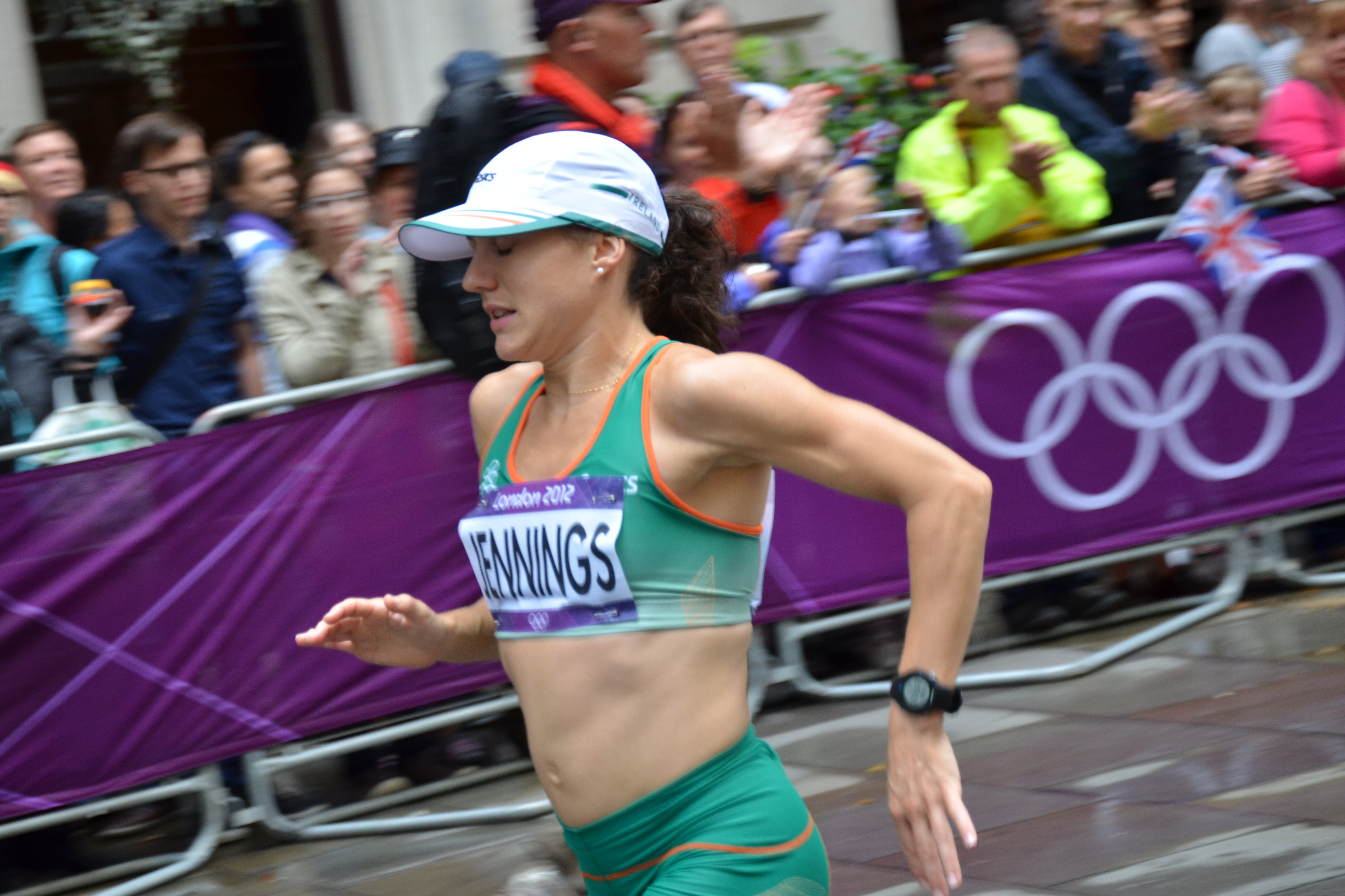 Caitriona Jennings (Ireland) in the marathon (w) at the Olympic Games 2012